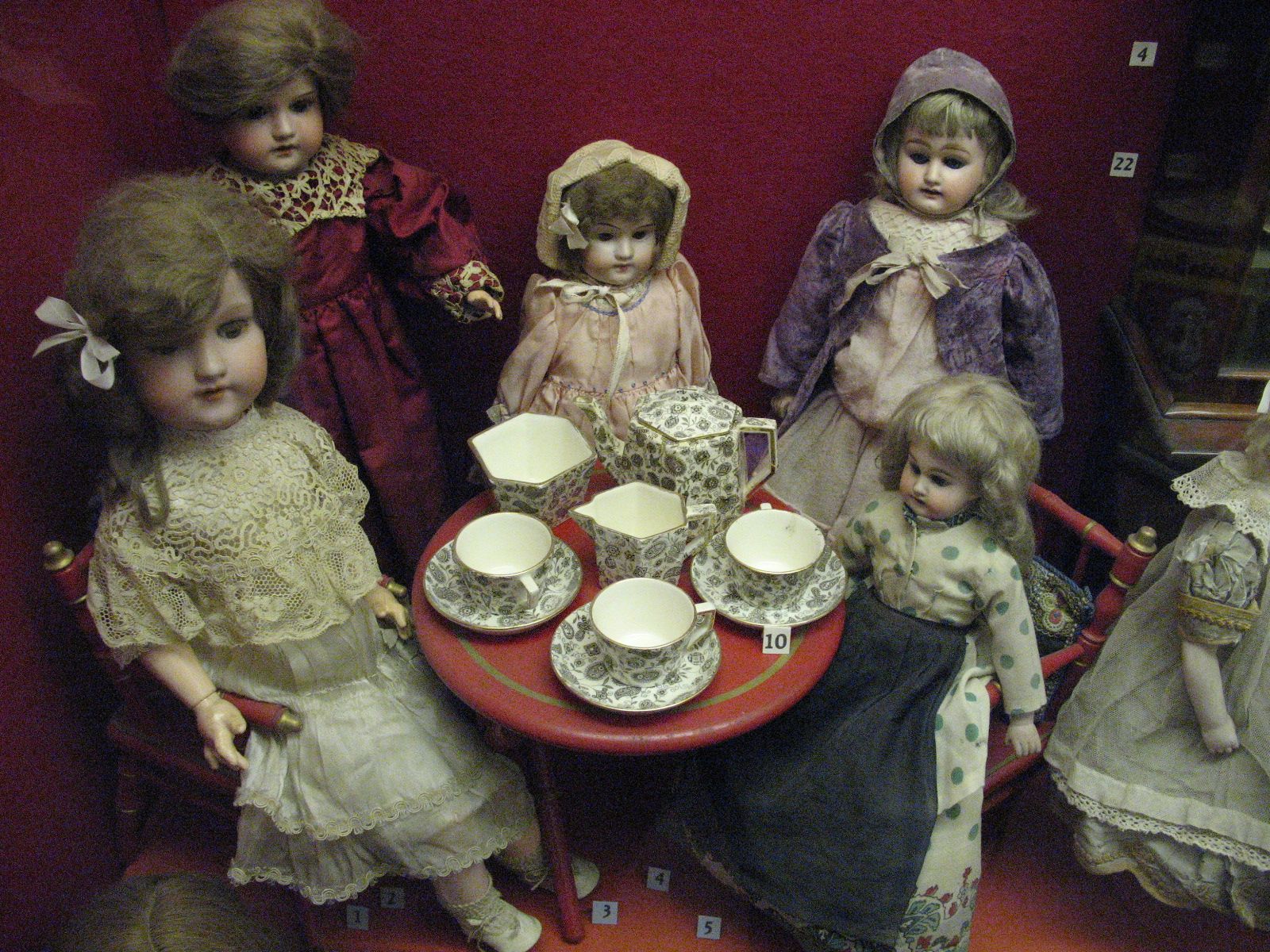 The picture shows a arrangement of dolls at the Museum of Childhood in Edinburgh, Scotland.